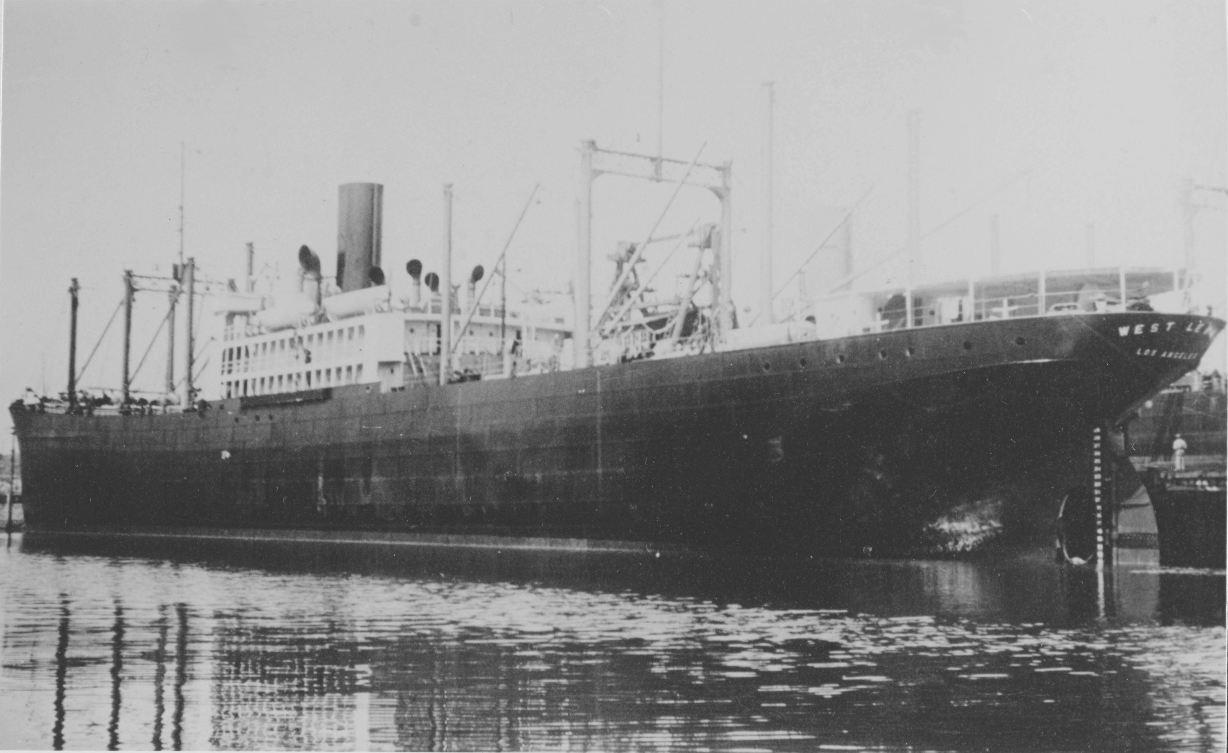 US merchant ship West Lewark in port in 1921, while being evaluated by the Navy. In 1922 the US Army acquired her and renamed her USAT Meigs. Photo # NH 102524